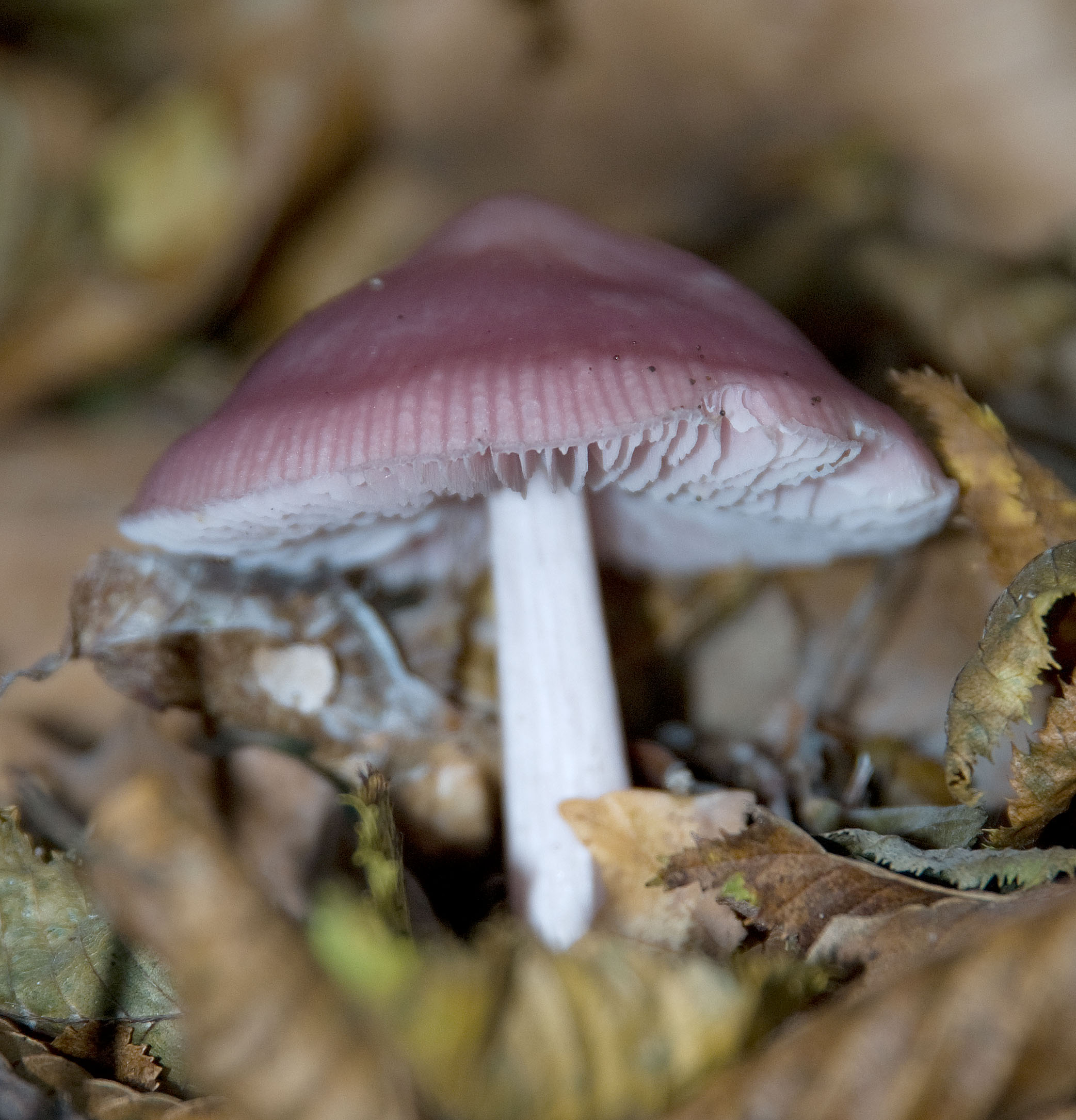 unidentified purple mushroom, approx. 5 cm in diameter